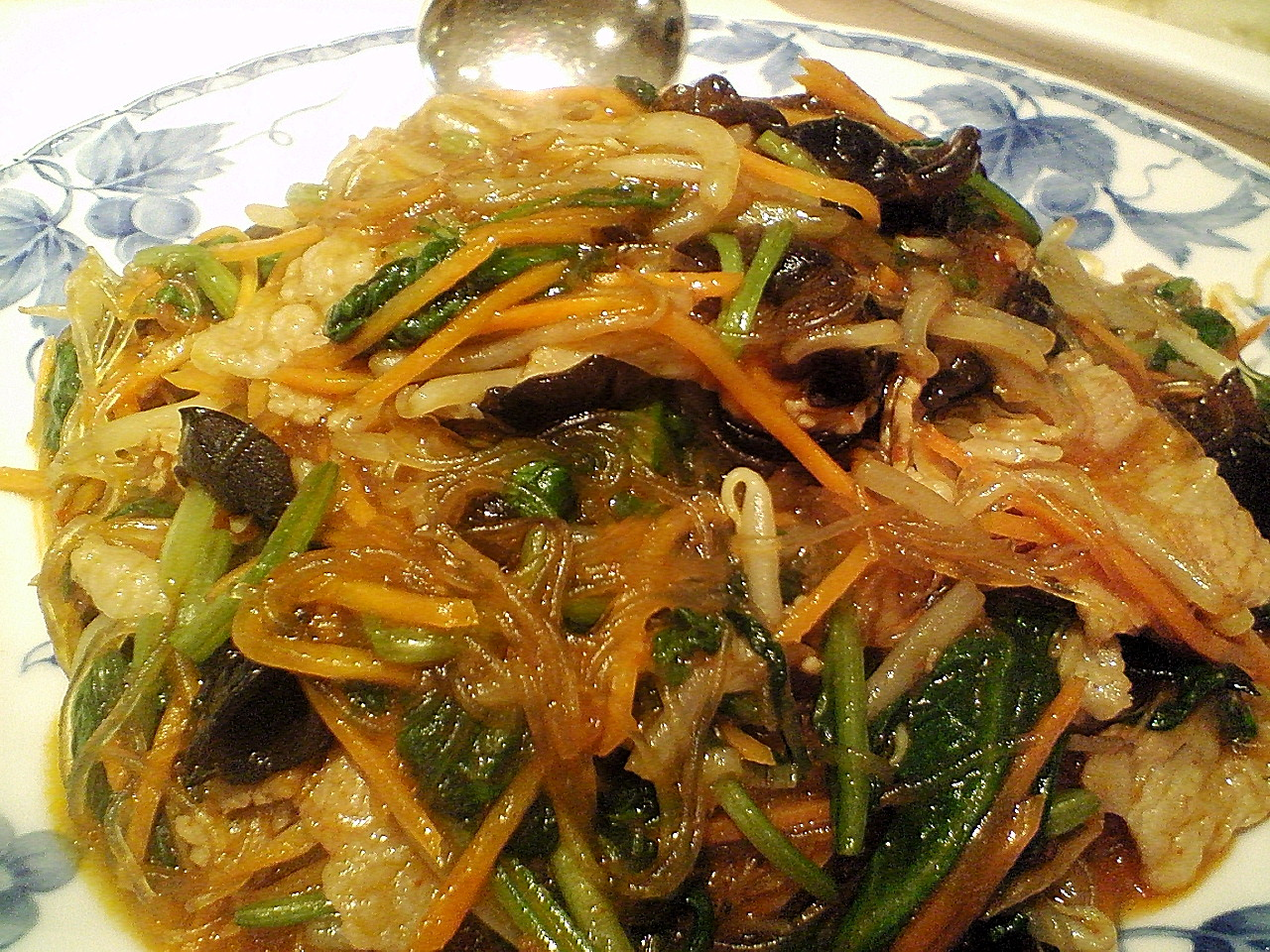 Japchae, a kind of Korean noodle salad made with marinated beef and vegetables in soy saurce and sesame oil.